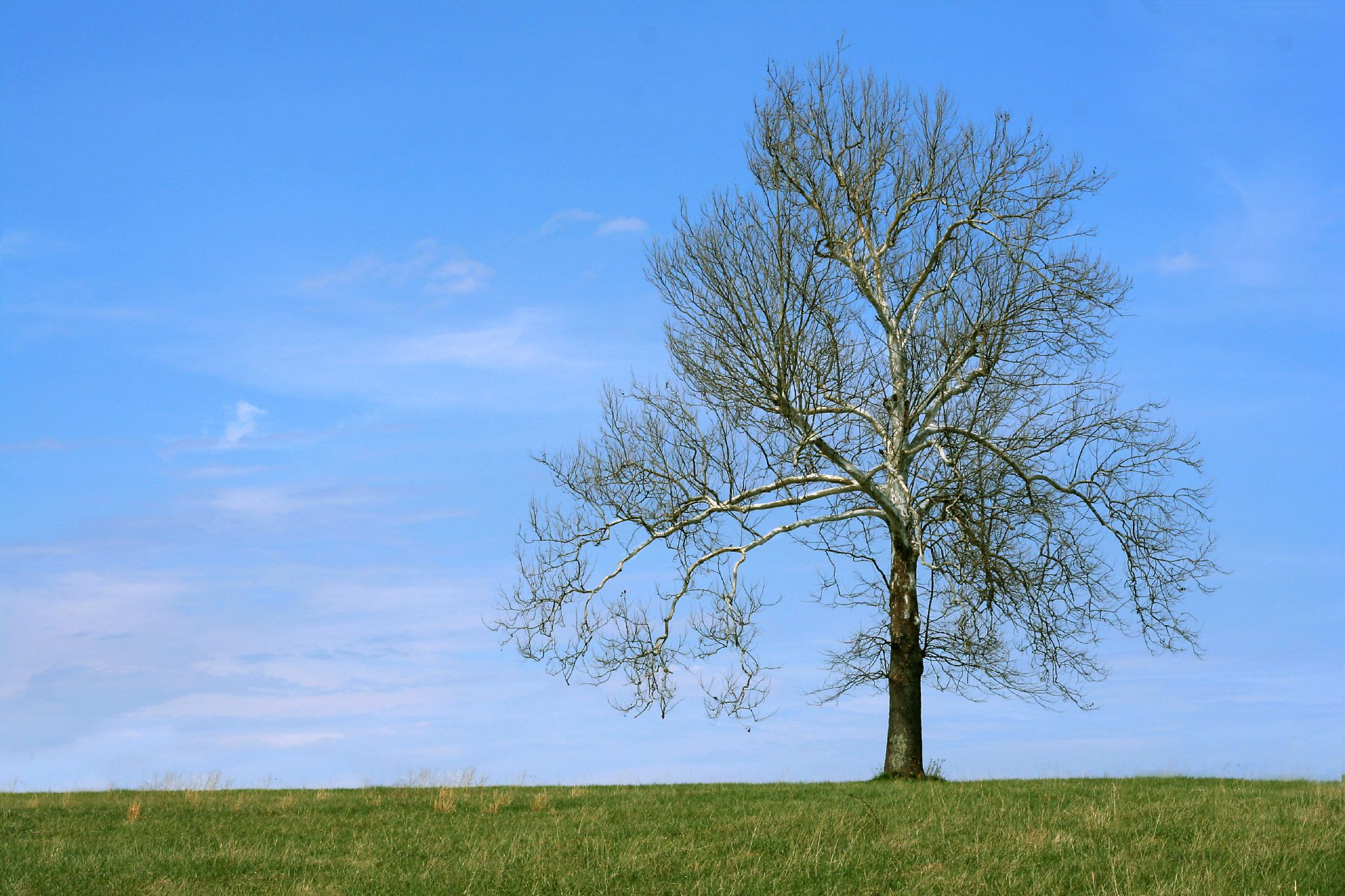 Tree from Jacks Creek Pike, Fayette County, Kentucky.